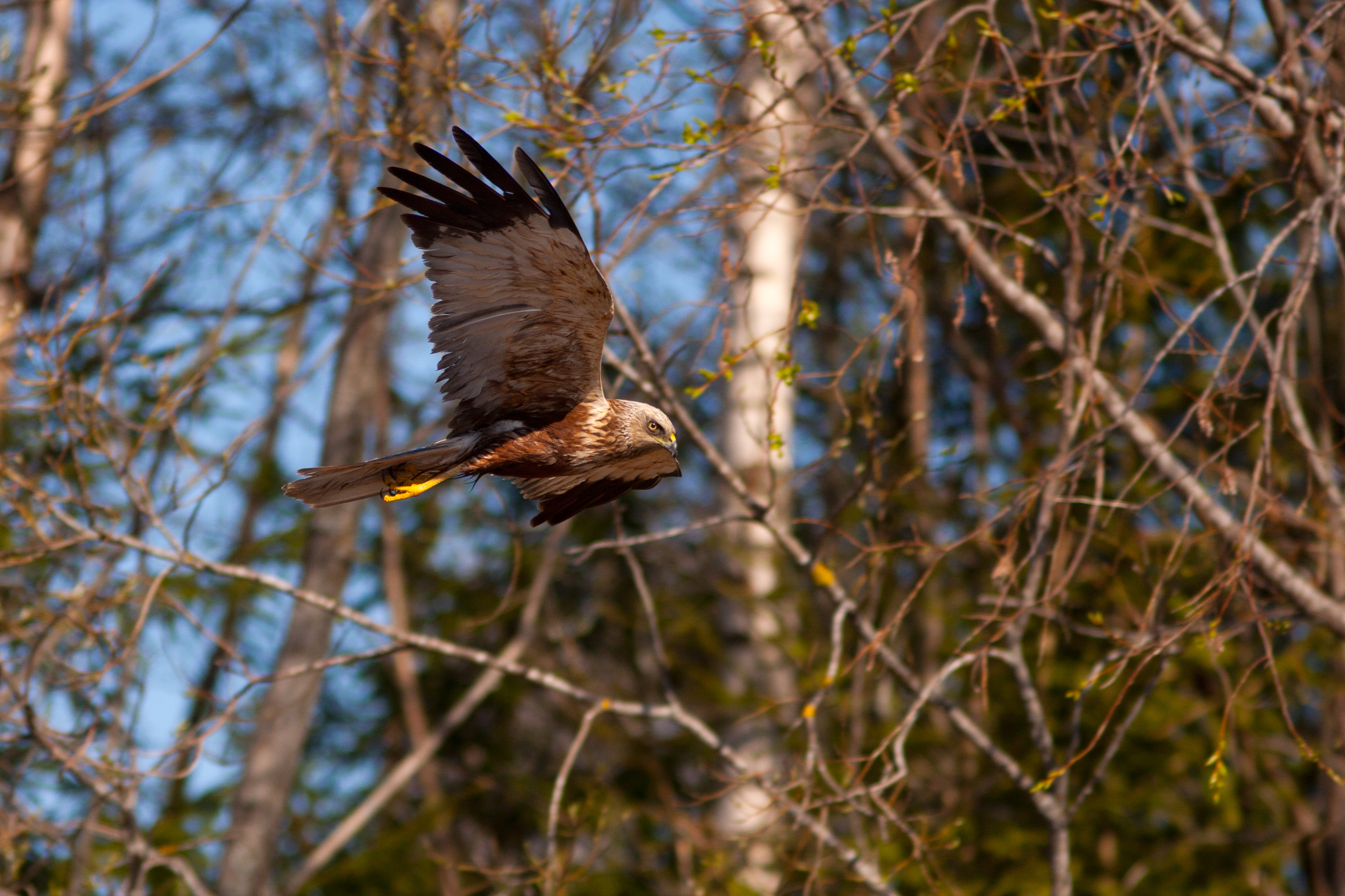 Western marsh harrier in Harju County.